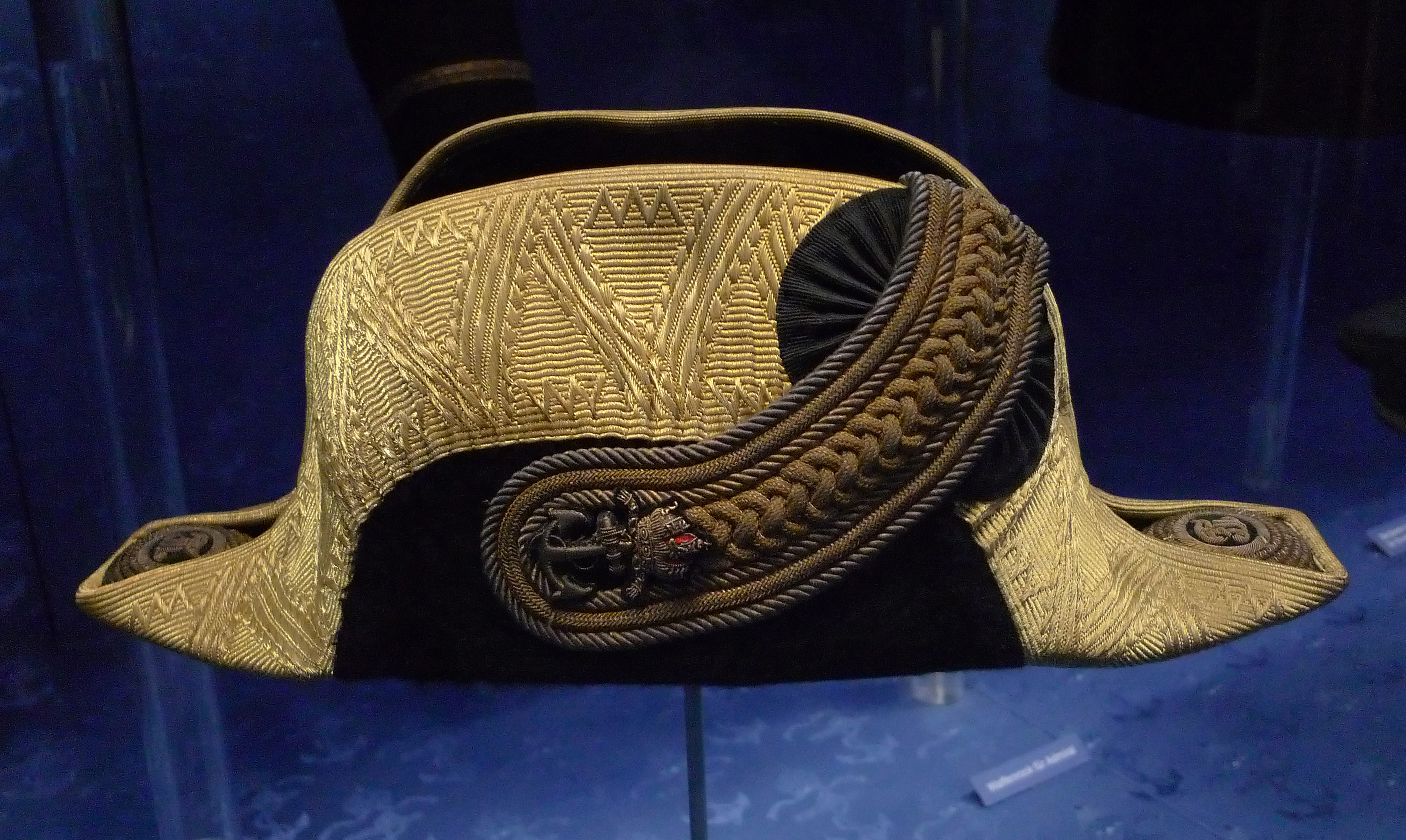 Austro-Hungarian Navy flag officer's bicorne hat, Heeresgeschichtliches Museum Wien. Heeresgeschichtliches Museum Native nameHeeresgeschichtliches MuseumParent institutionMinistry of DefenceLocationViennaCoordinates48° 11′ 07.3″ N, 16° 23′ 14.6″ E Established1856Web page control : Q700751 VIAF: 149726120 ISNI: 0000 0001 2182 8171 LCCN: n50055593 OSM: 4465113 GND: 2006452-4 WorldCat institution QS:P195,Q700751